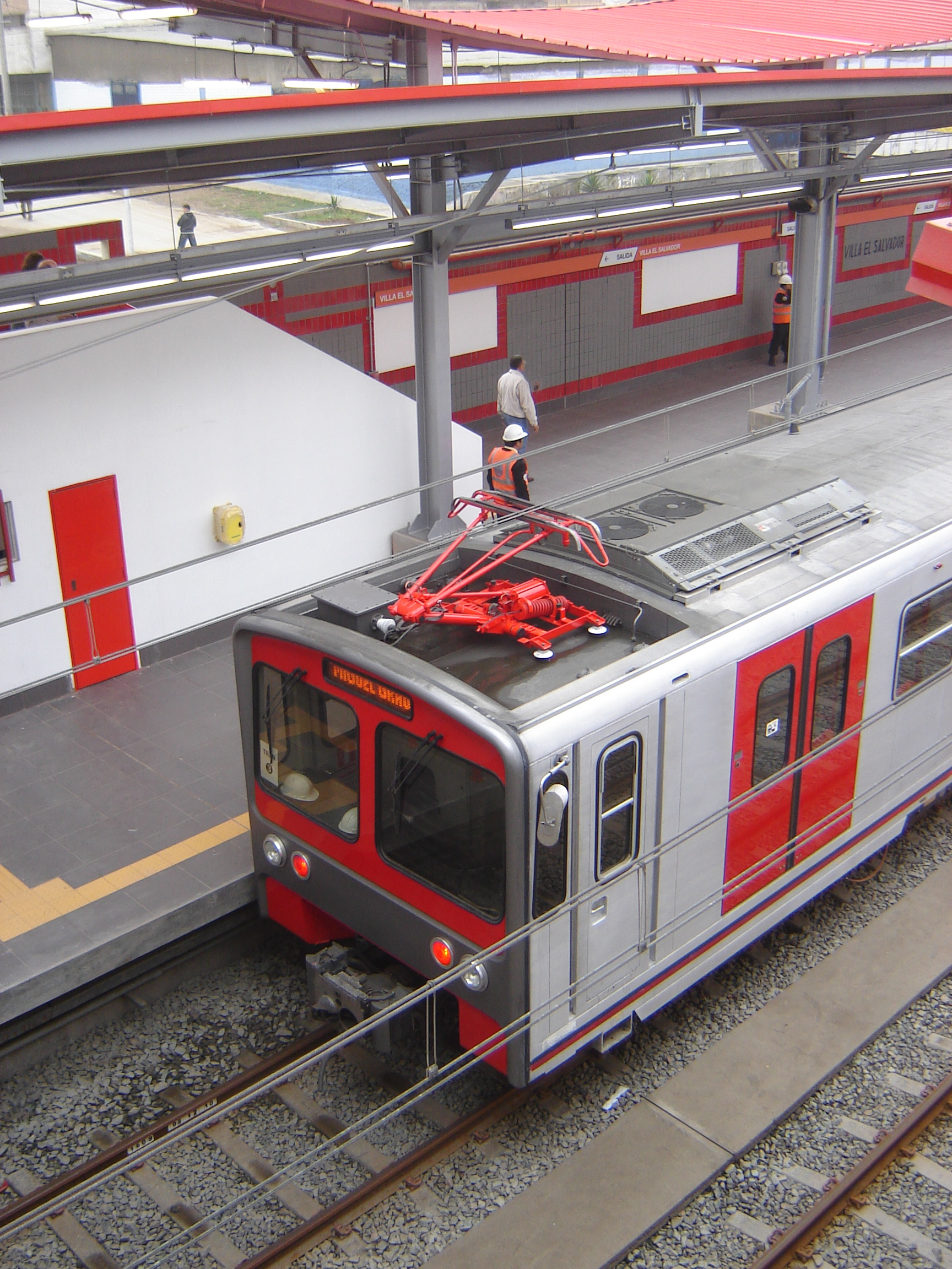 Train at Villa El Salvador Station.